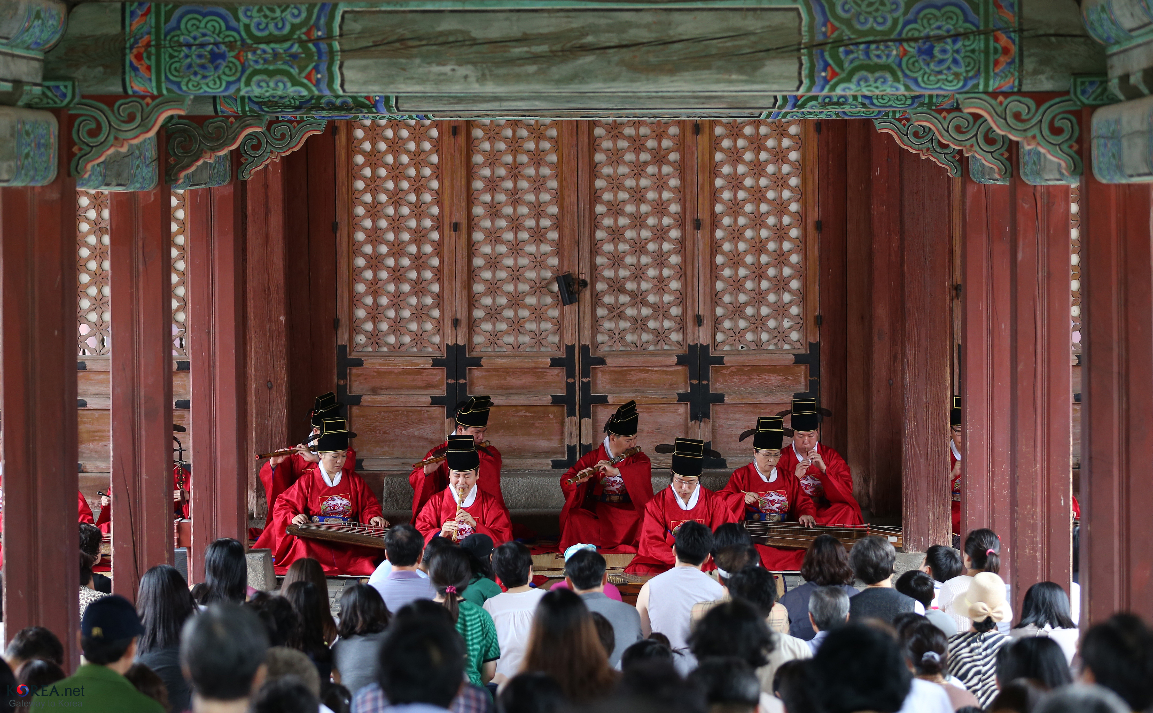 Morning of Changgyeonggung The annual early-morning gugak concert initiated by the National Gugak Center 2013.08.17. Changgyeonggung, Seoul -Related Articles- Early birds flock to palace on Saturday morning Ministry of Culture, Sports and Tourism Korean Culture and Information Service ( JEON HAN 이른 아침 고궁에서 국악에 빠지다 국립국악원 고궁 아침 국악 공연 ‘창경궁의 아침’ ‘이른 아침 고궁에서 국악에 빠지다’ 창경궁(昌慶宮), 서울 문화체육관광부 해외문화홍보원 코리아넷 전한